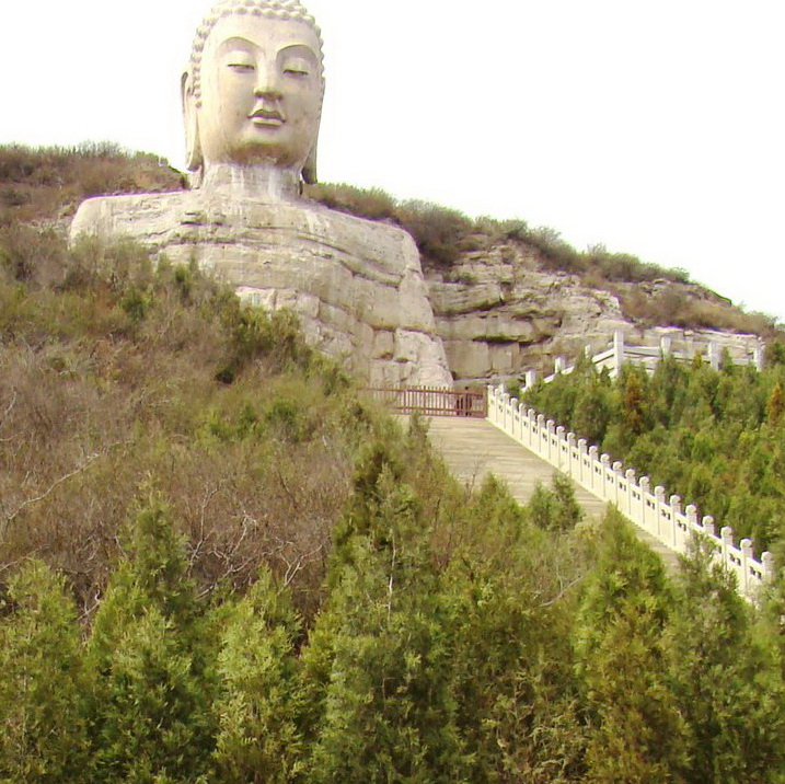 Mengshan Giant Buddha